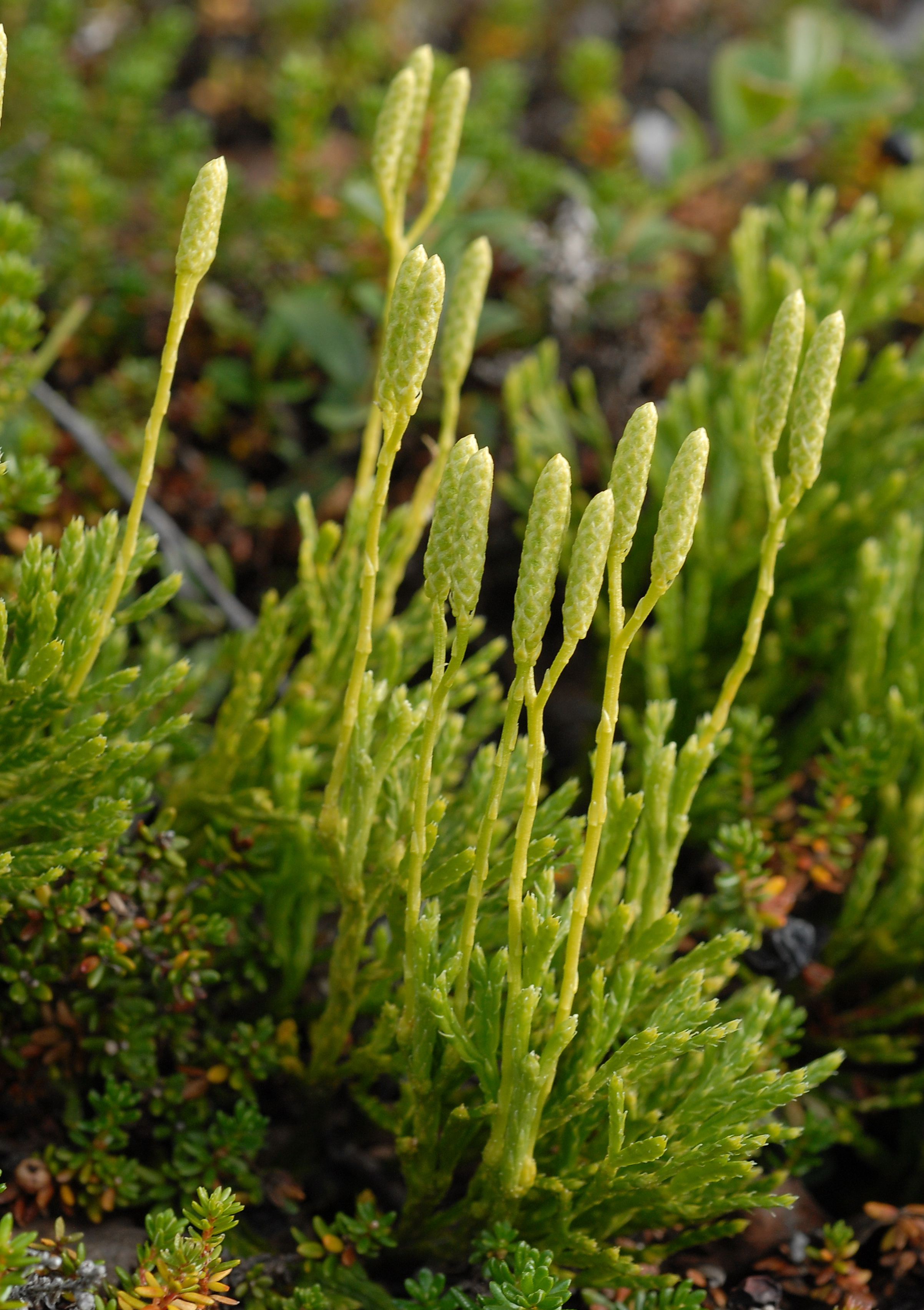 Diphasiastrum complanatum, Nordland county, Norway